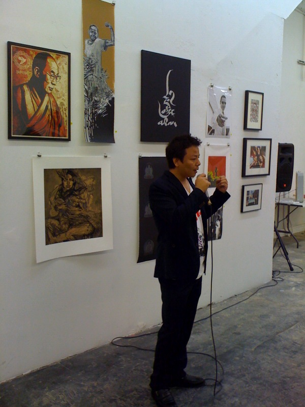 Tenzing Rigdol speaks on Tibetan artists